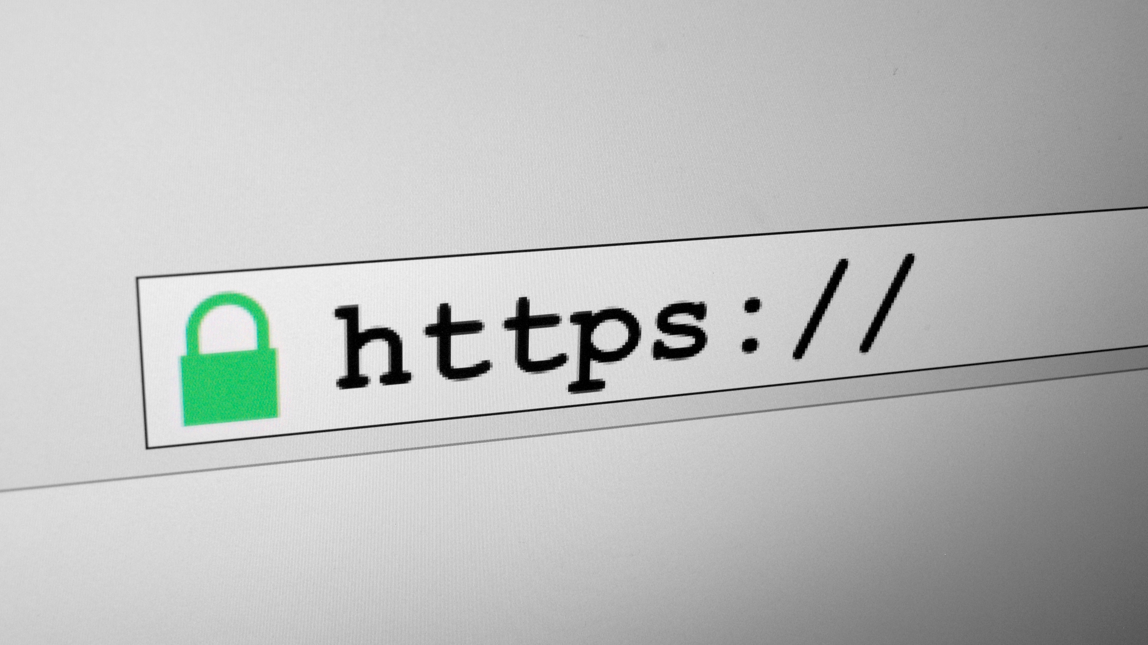 HTTPS and padlock in web broser website address bar.